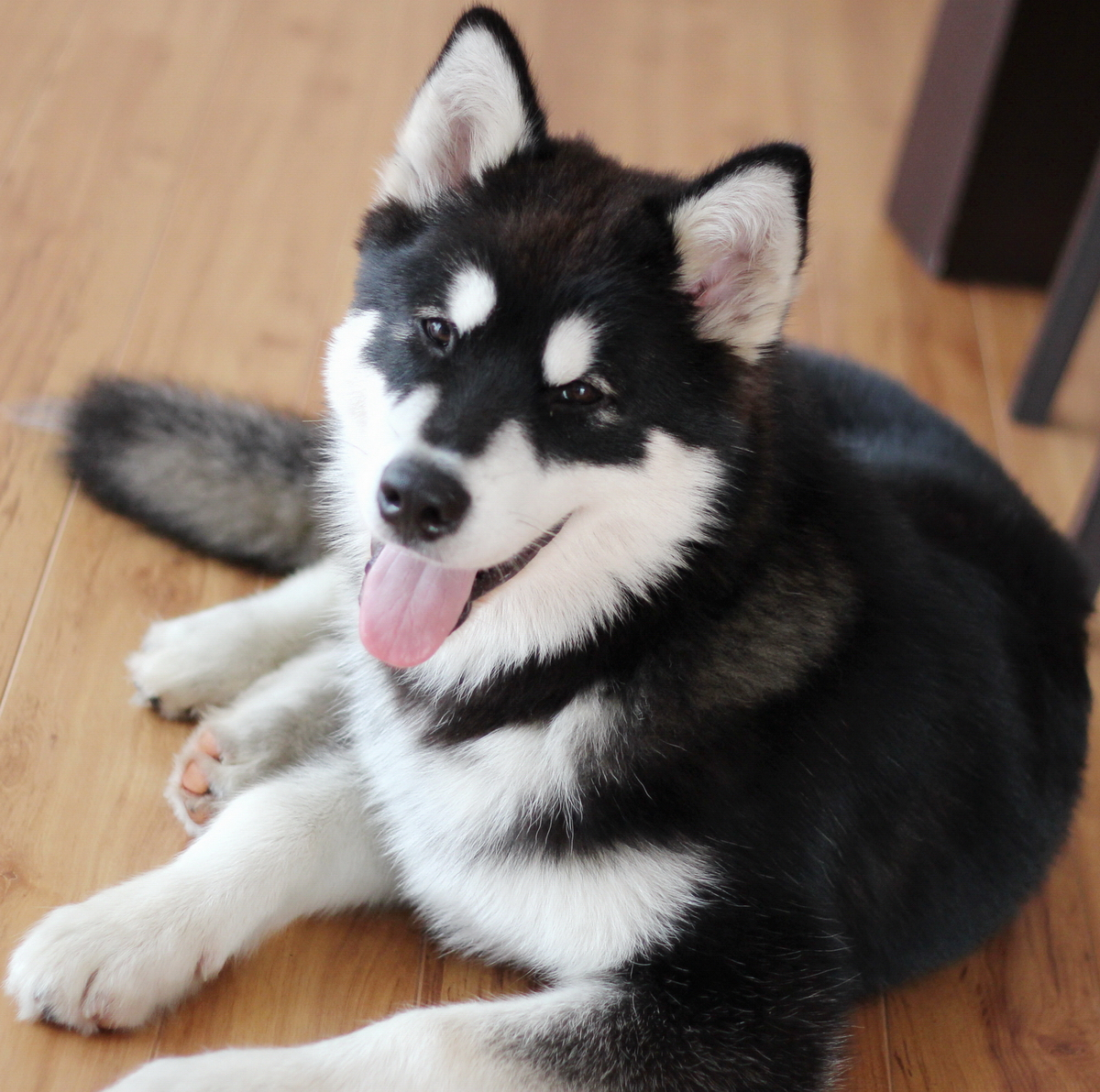 Alaskan malamute puppy 5 months old